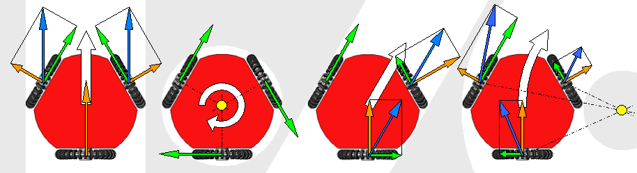 schematic drawing of different movement possibilities and the corresponding speed vectors of an autonomous robot with an omnidirectional drive based on three omni-wheels. Topview. Speed vectors: Robot white driven wheel speed green compensated speed orange overall wheel speed blue center of rotation yellow